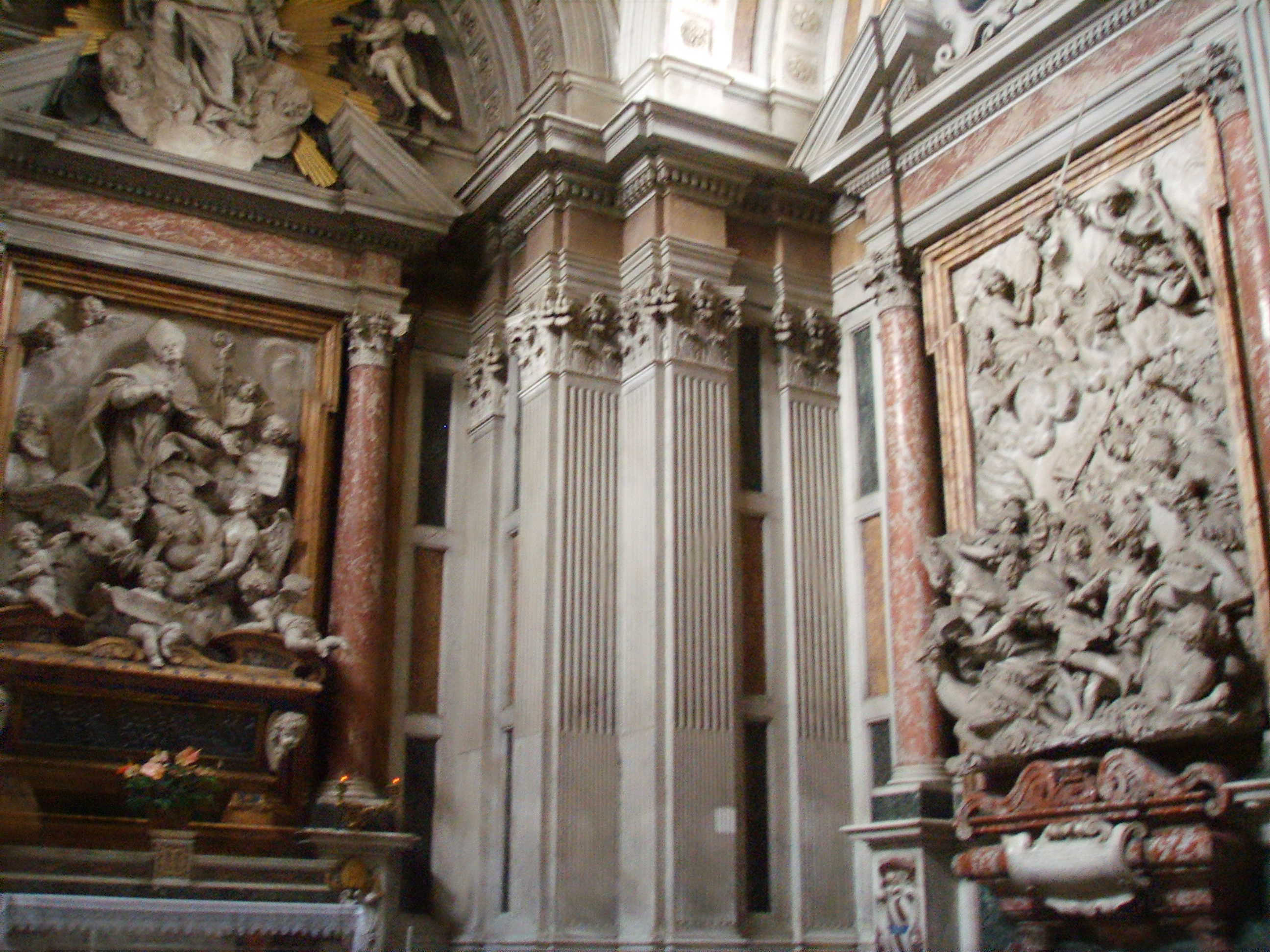 Santa Maria del Carmine, Corsini Chapel, inside, Florence, Italy